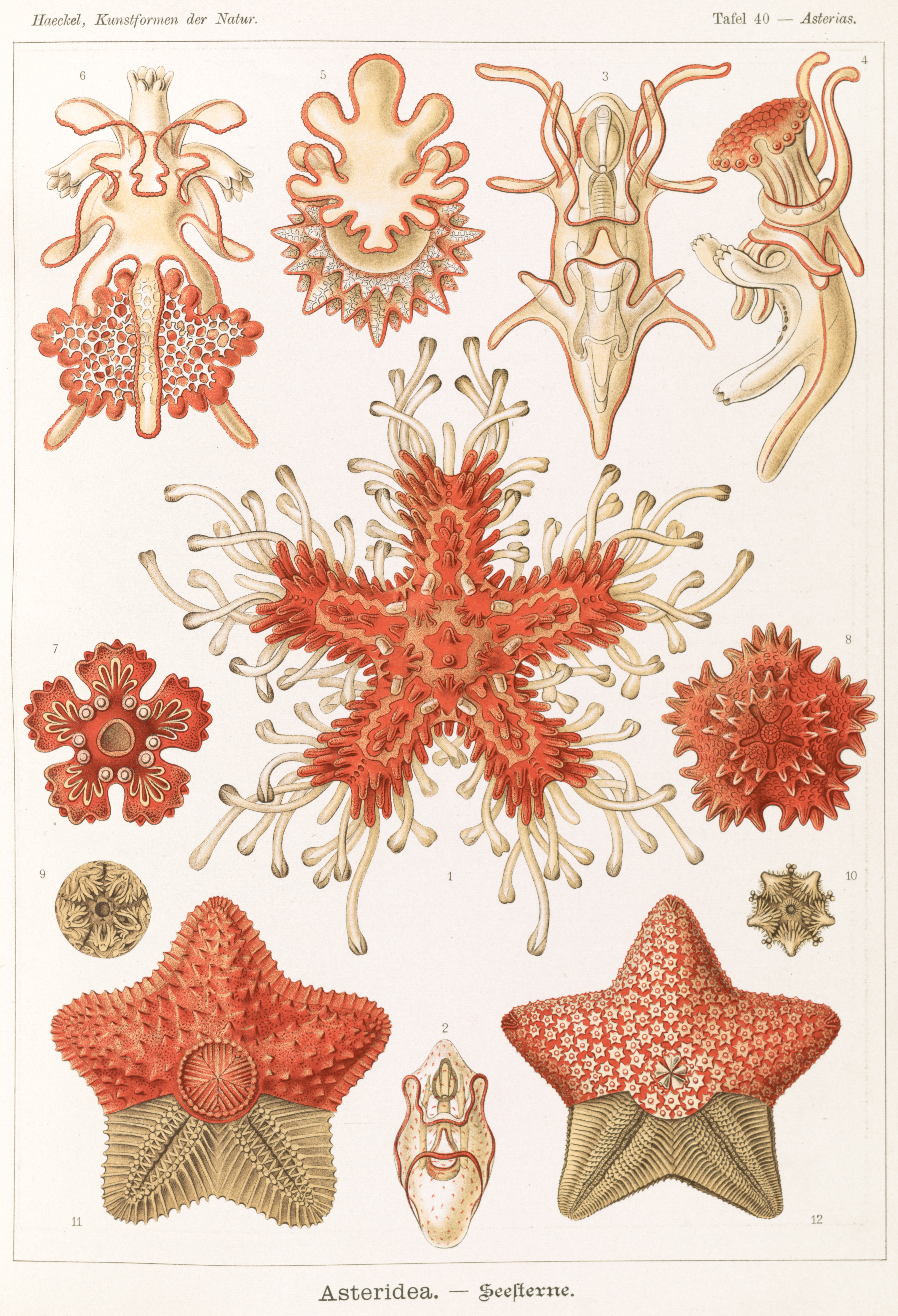 1: Common Starfish